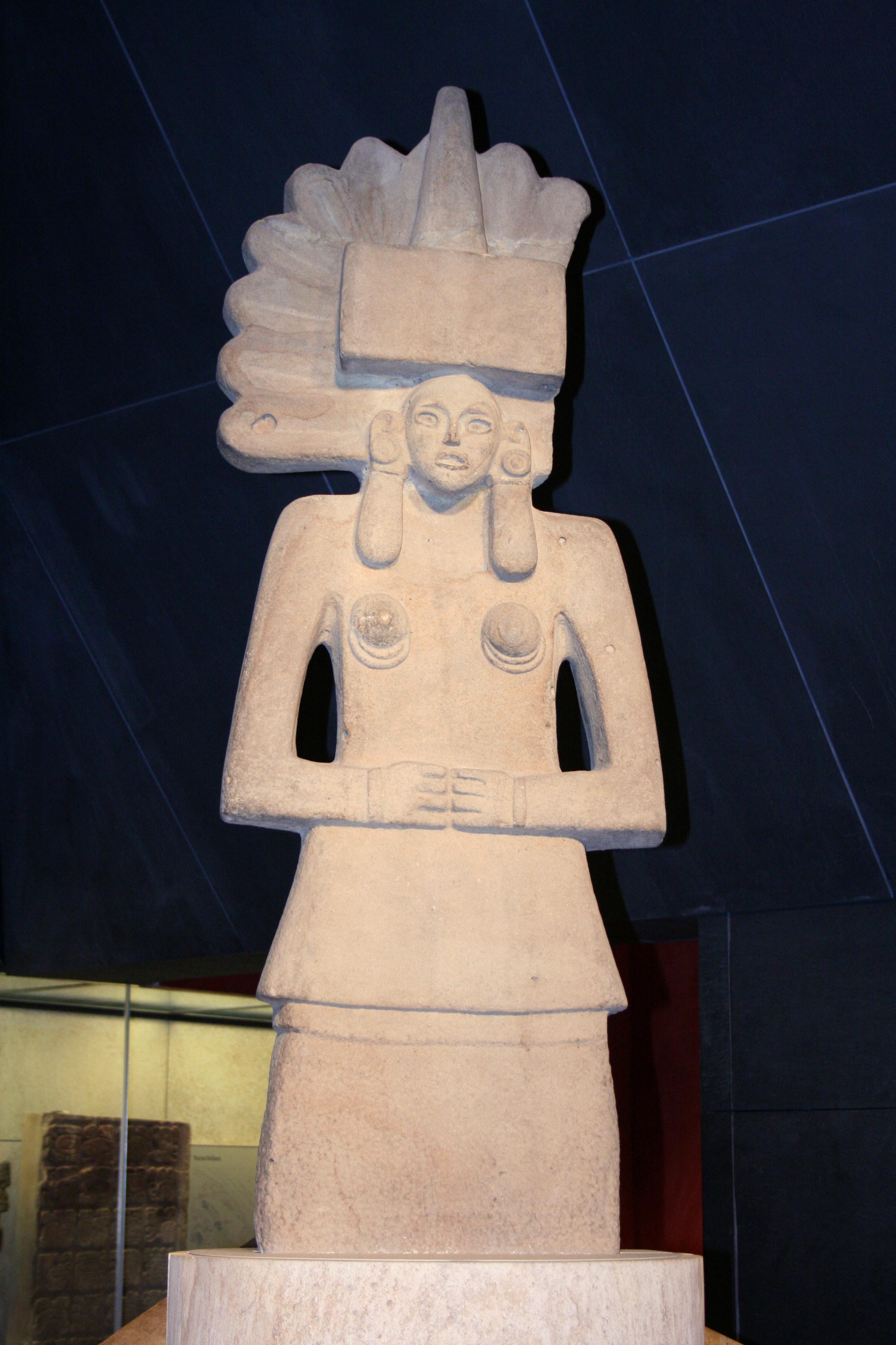 Stone statue of godddess Tlazolteotl. Huastec. Postclassic period. Headdress characteristic of the goddess. British Museum